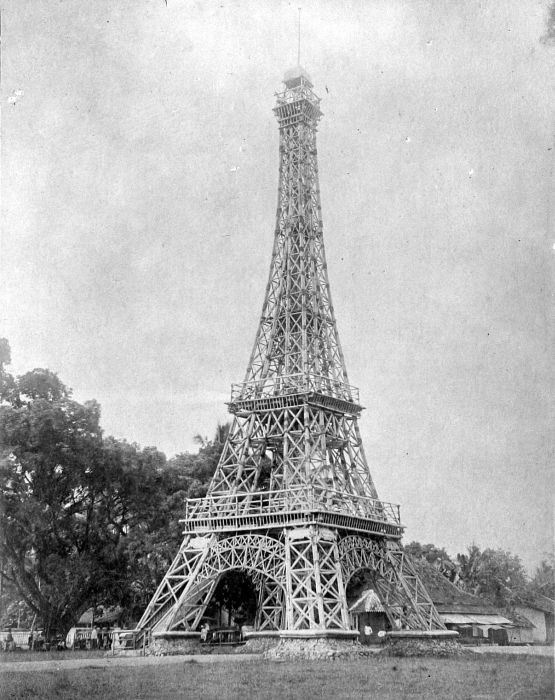 Bamboo Eiffel Tower replica in Tasikmalaja, Java erected in honor of the coronation of Queen Wilhelmina in 1898; it designed and implemented by the water superintendent A.H. van Bebber